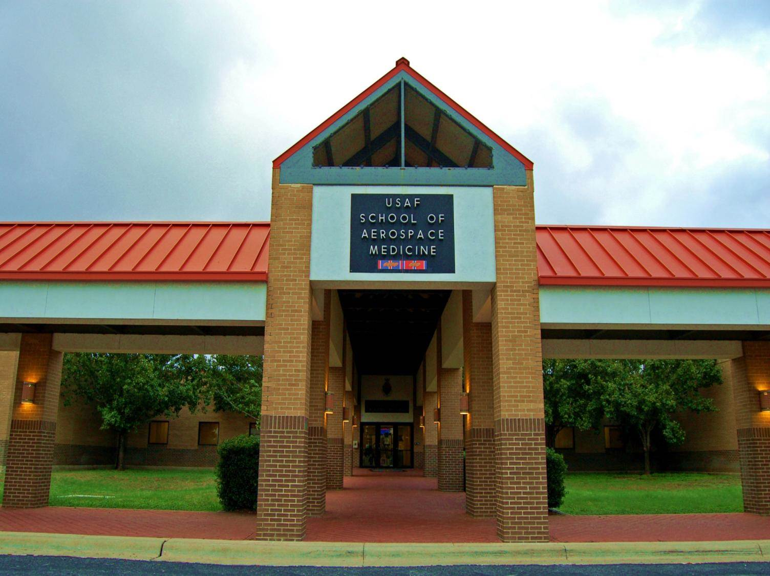 Picture of the USAFSAM main building (building 775) used from 1996 - 2011.